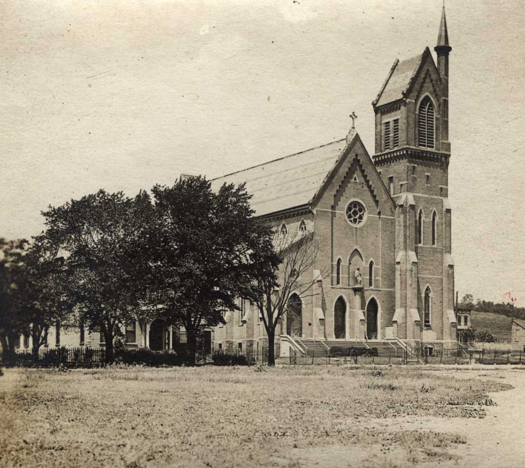 Sacred Heart Church (Roman Catholic) on Walter Street in North Albany (Albany, New York)